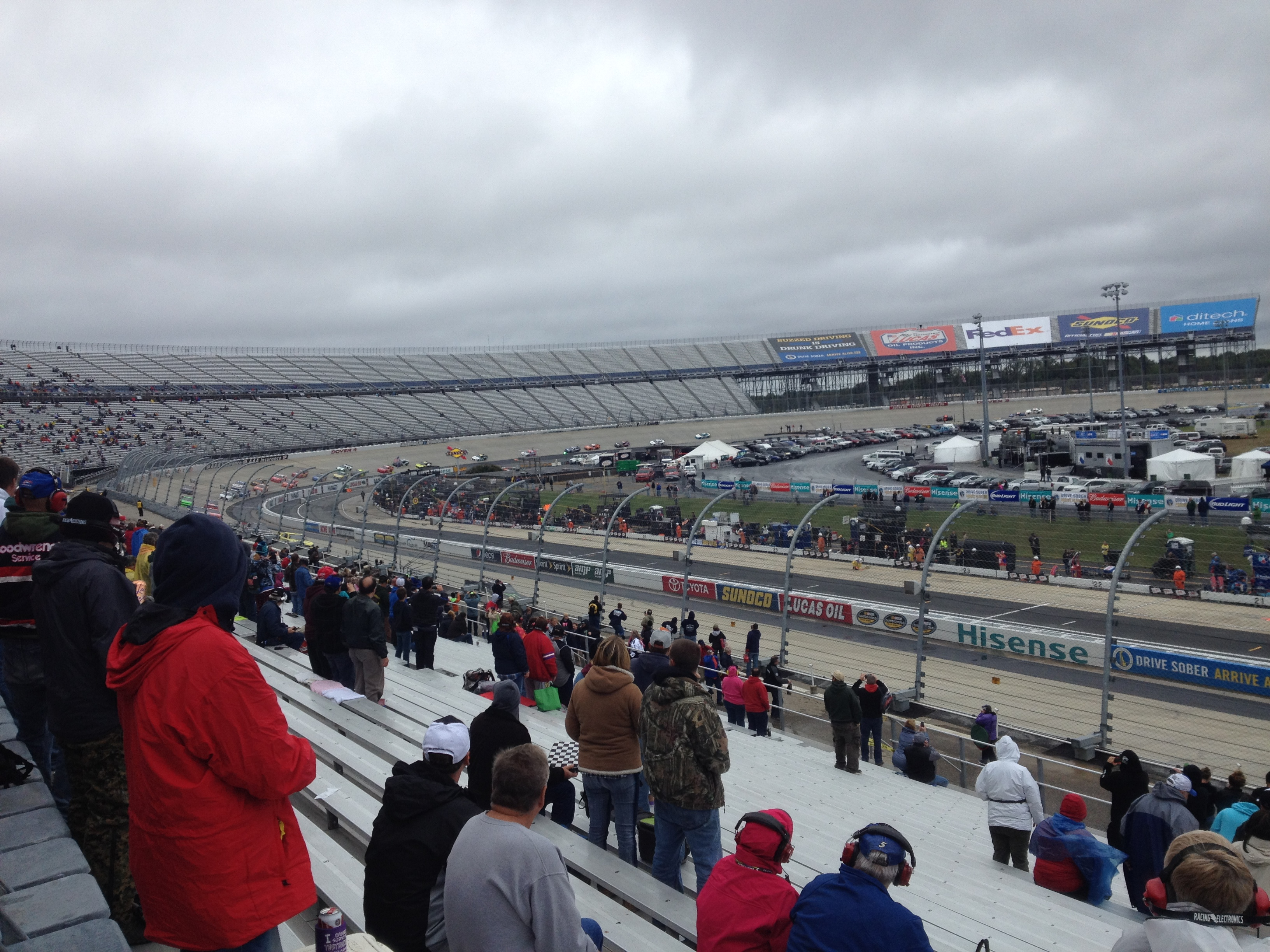 The 2015 Hisense 200 at Dover International Speedway viewed from the frontstretch, with Kyle Busch (#54) leading.